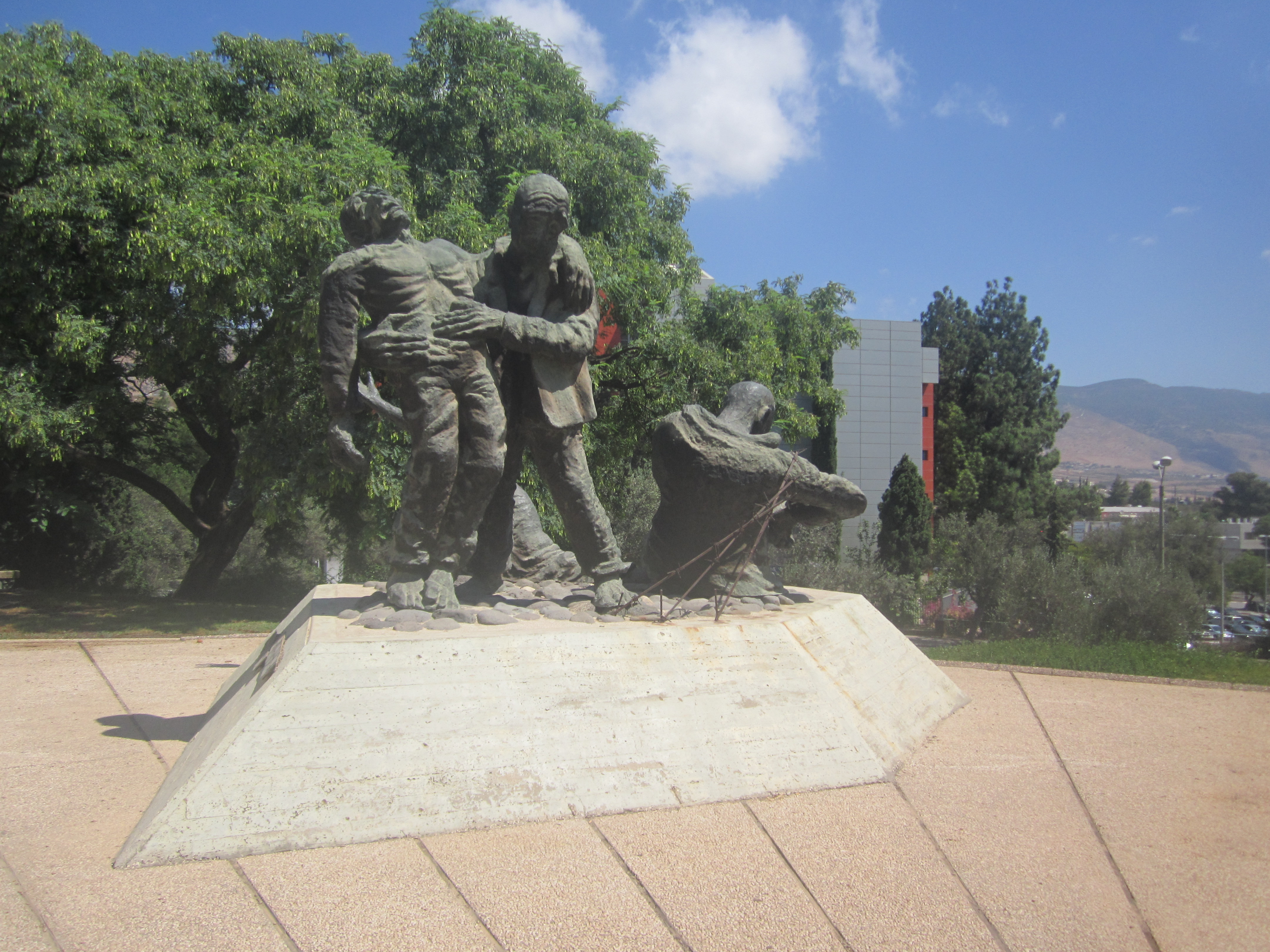 Holocaust to ressurection statues in Karmiel by artist Nicky Imber